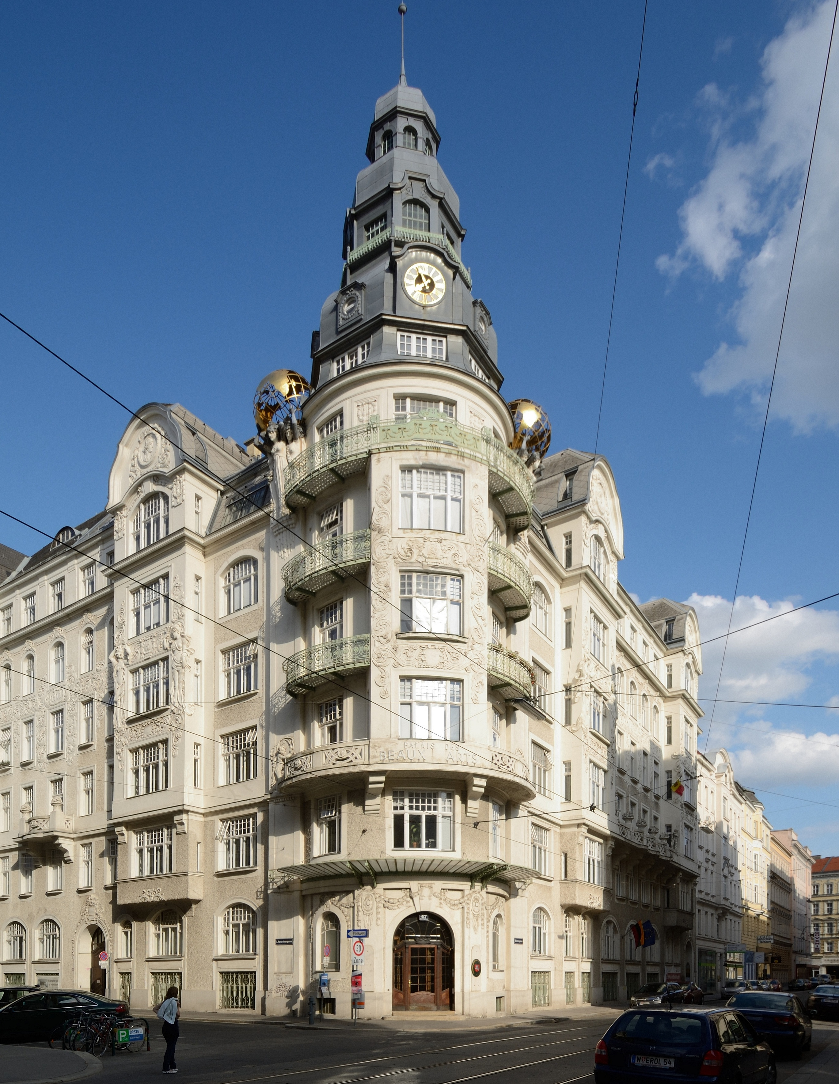 Residential and office building, Palais des Beaux-Arts, domicile of the embassy of Lithuania in Vienna